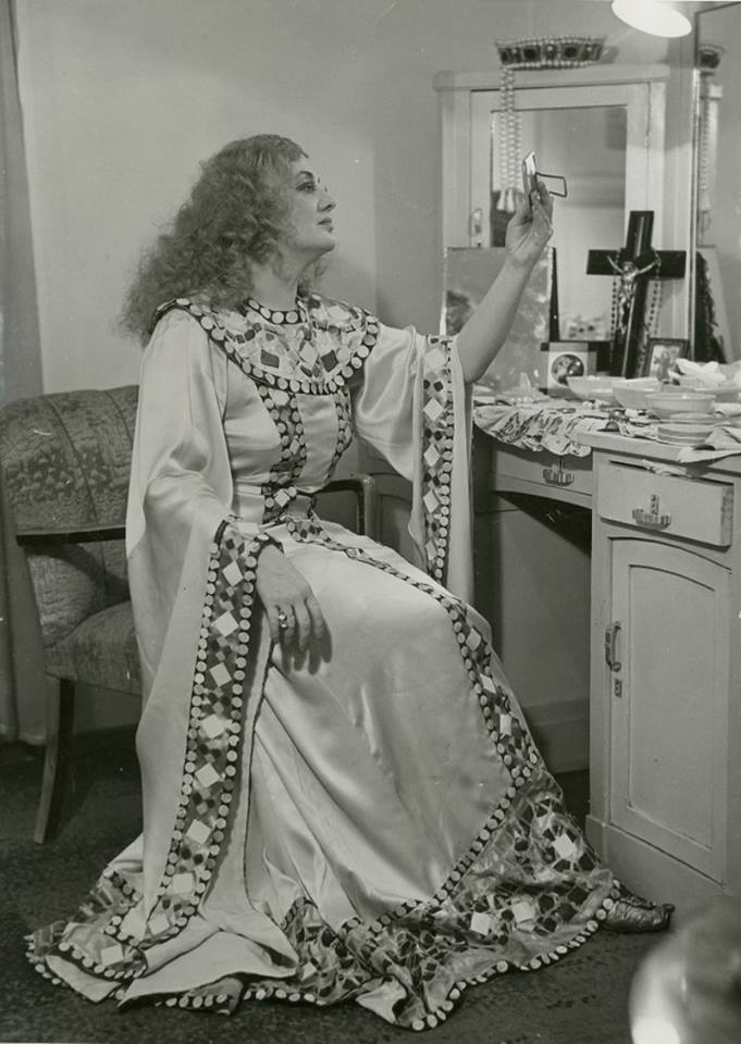 Rózsi Walter (1899-1974) Hungarian soprano as Silvana in Respighi's La Fiamma (Teatro alla Scala, 1940)